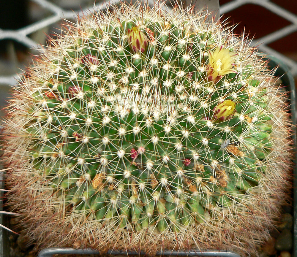 Mammillaria petrophila ssp. baxteriana at the University of California Botanical Garden, Berkeley, California